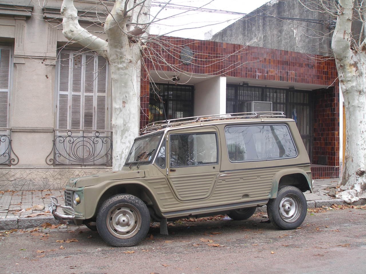 Ranger, the uruguayan version of the Citroën Méhari. Made by Nordex.